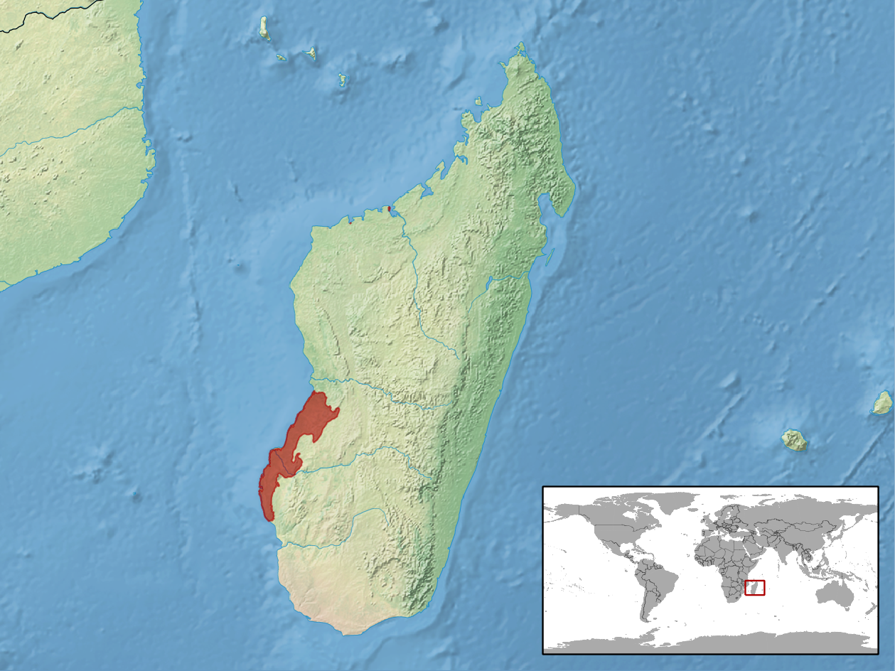 geographic distribution of Furcifer labordi (Native: Madagascar)